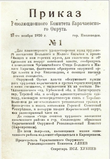 Приказ Ревкома Карачаевского округа